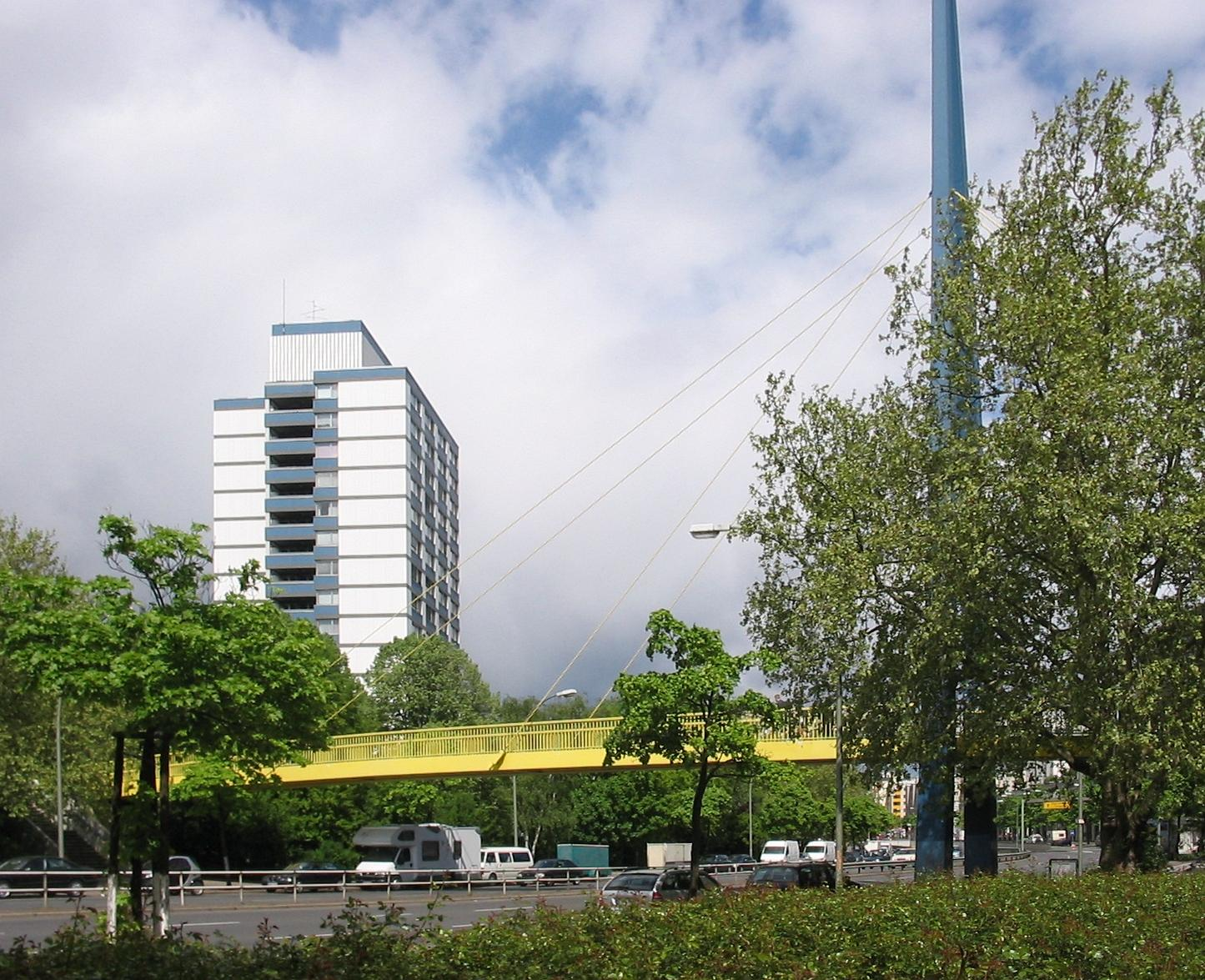 The Volksparksteg is a footbridge over the Bundesallee in Berlin-Wilmersdorf, connecting two parts of the Volkspark Wilmersdorf. The Cable-stayed bridge was built in 1971.